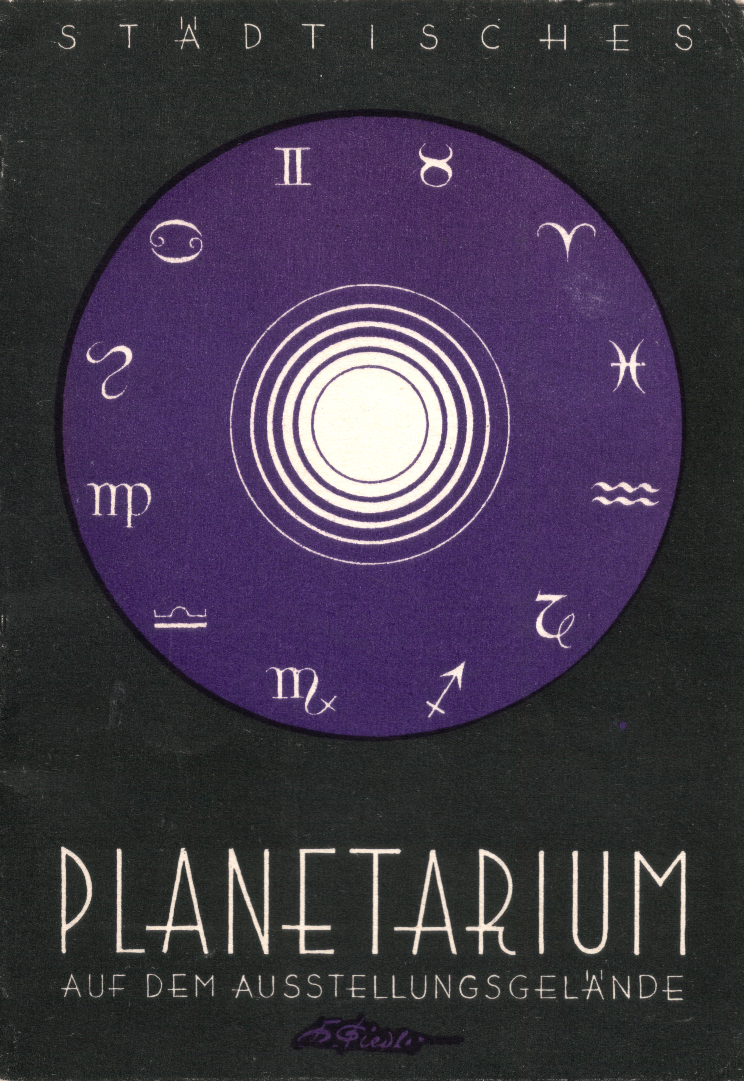 Cover of the booklet by Kurt Fiedler (1927) Städtisches Planetarium Dresden (Kisshauer)